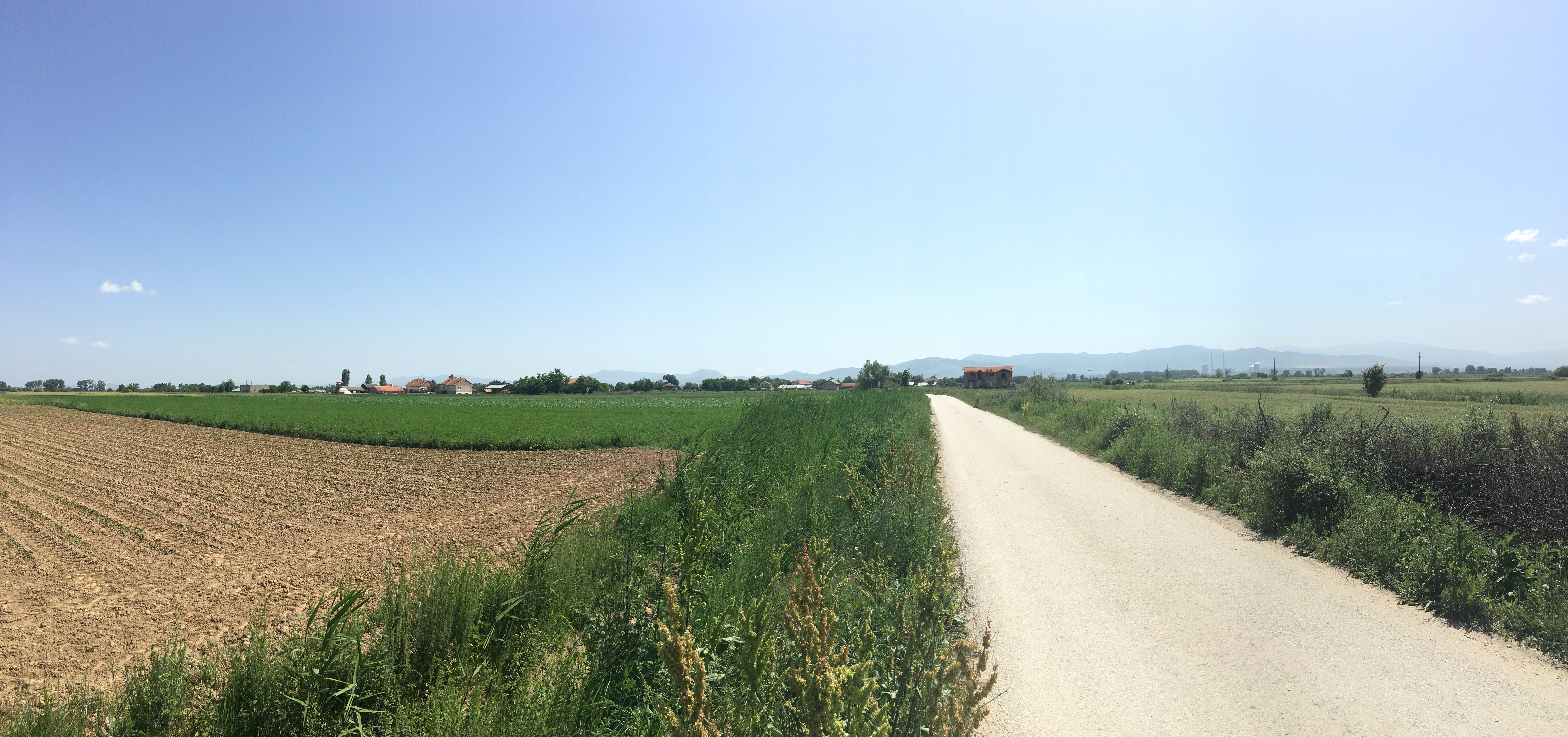 A panoramic view of the village of Trn